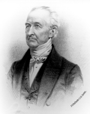 SHEPLEY, Ether, a Senator from Maine; born in Groton, Mass., November 2, 1789;died in Portland, Cumberland County, Maine, January 15, 1877